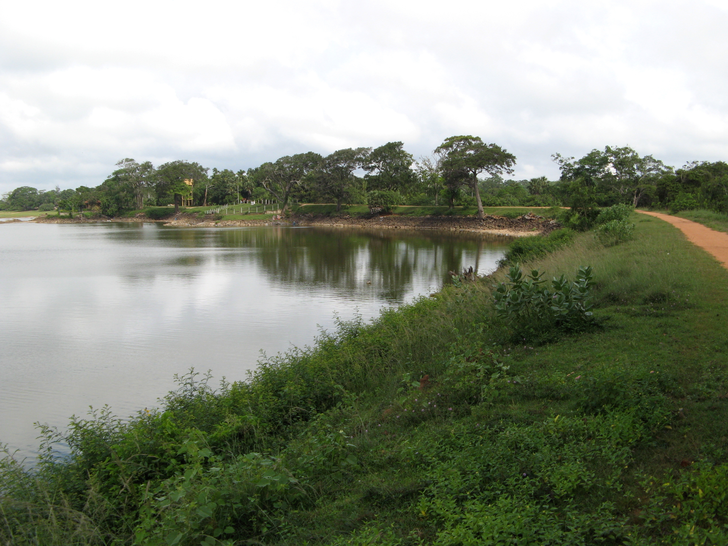 The constructed nature of the reservoir is obvious at this point on the eastern shore, that is contained within a raised embankment and protected by a breakwater (the brick wall at photo center, top).